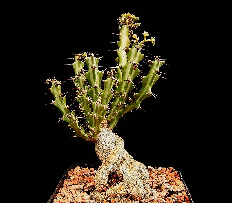 Euphorbia knuthii